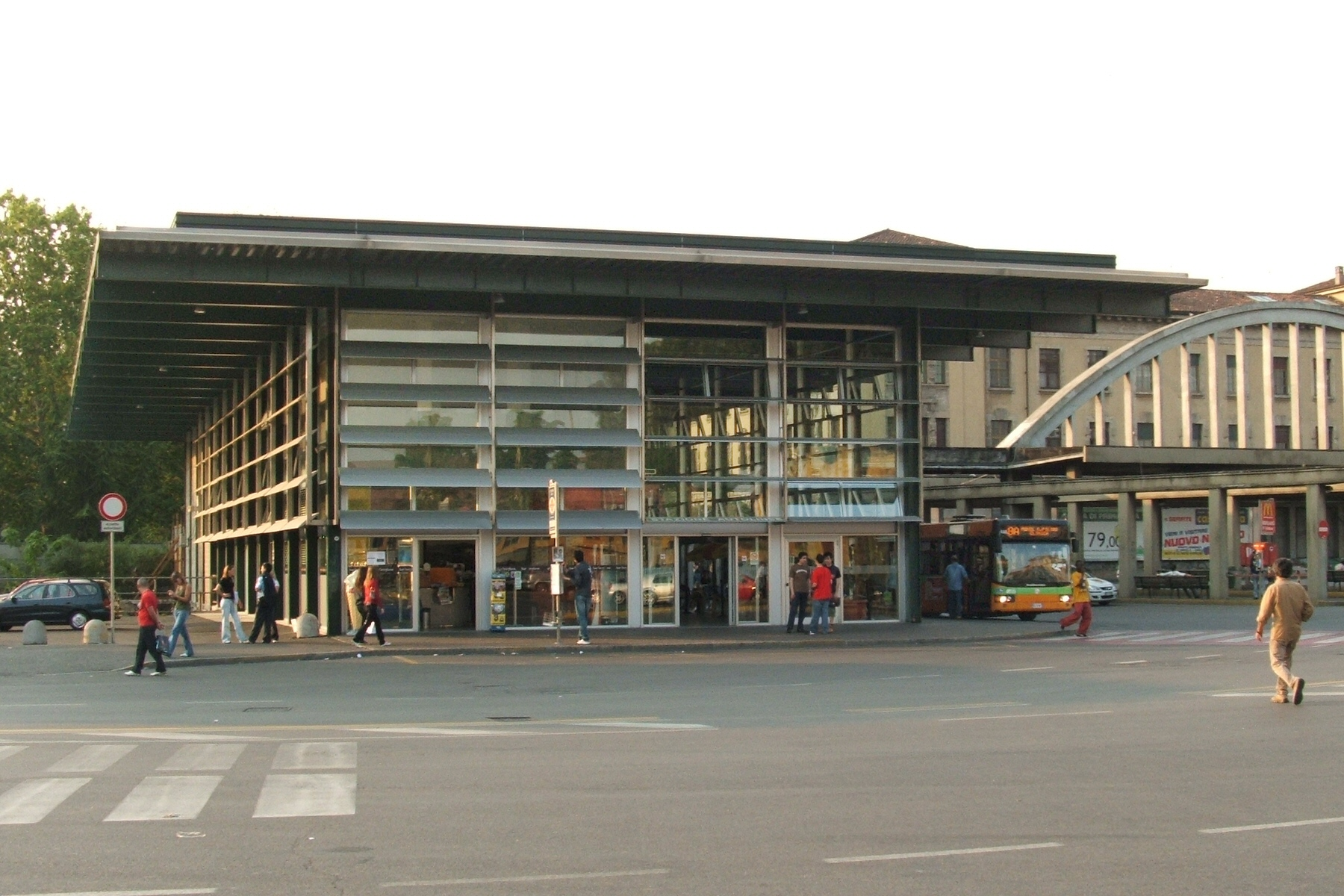 Bergamo - Lombardy - Italy, Bus station.